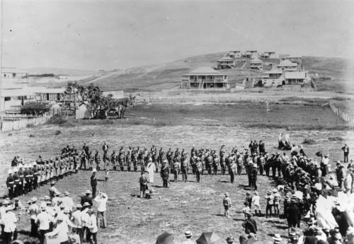 Addressing the Defence Forces at Emu Park 1898